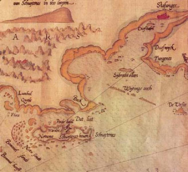 A 1588 map of Norway showing parts of coastal Rogaland.